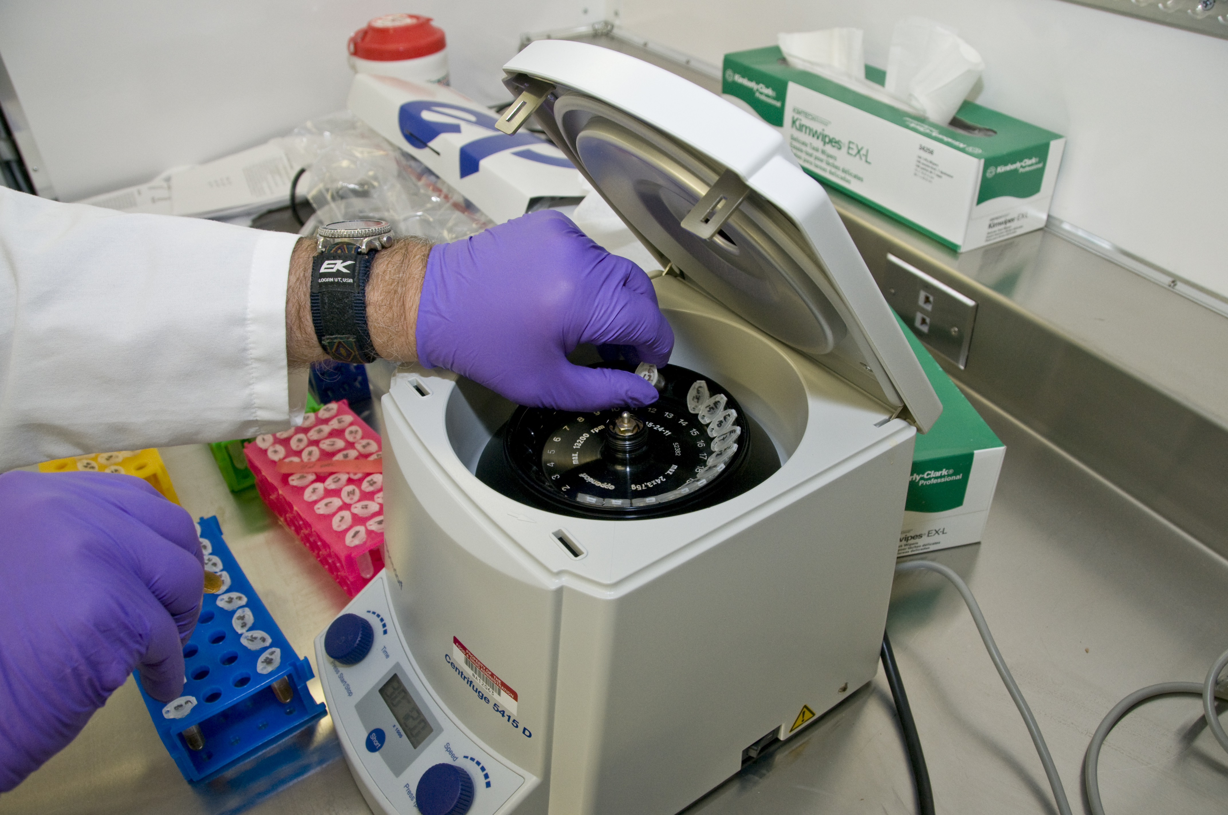 April 8, 2009; Nogales, AZ – An FDA mobile lab analyst uses a centrifuge to test produce samples collected at the border crossing for Salmonella and E. coli. Mobile laboratories help FDA quickly test food and drugs for contaminants. When not deployed, the mobile labs are stationed at FDA's Jefferson, Arkansas Regional Laboratory. For more information, read the Consumer Update at FDA photo by Michael J. Ermarth